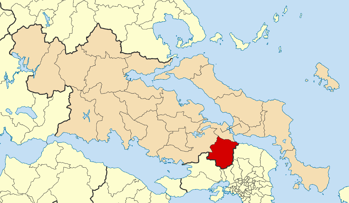 Locator map for Tanagra municipality in Greek region Central Greece (2011)